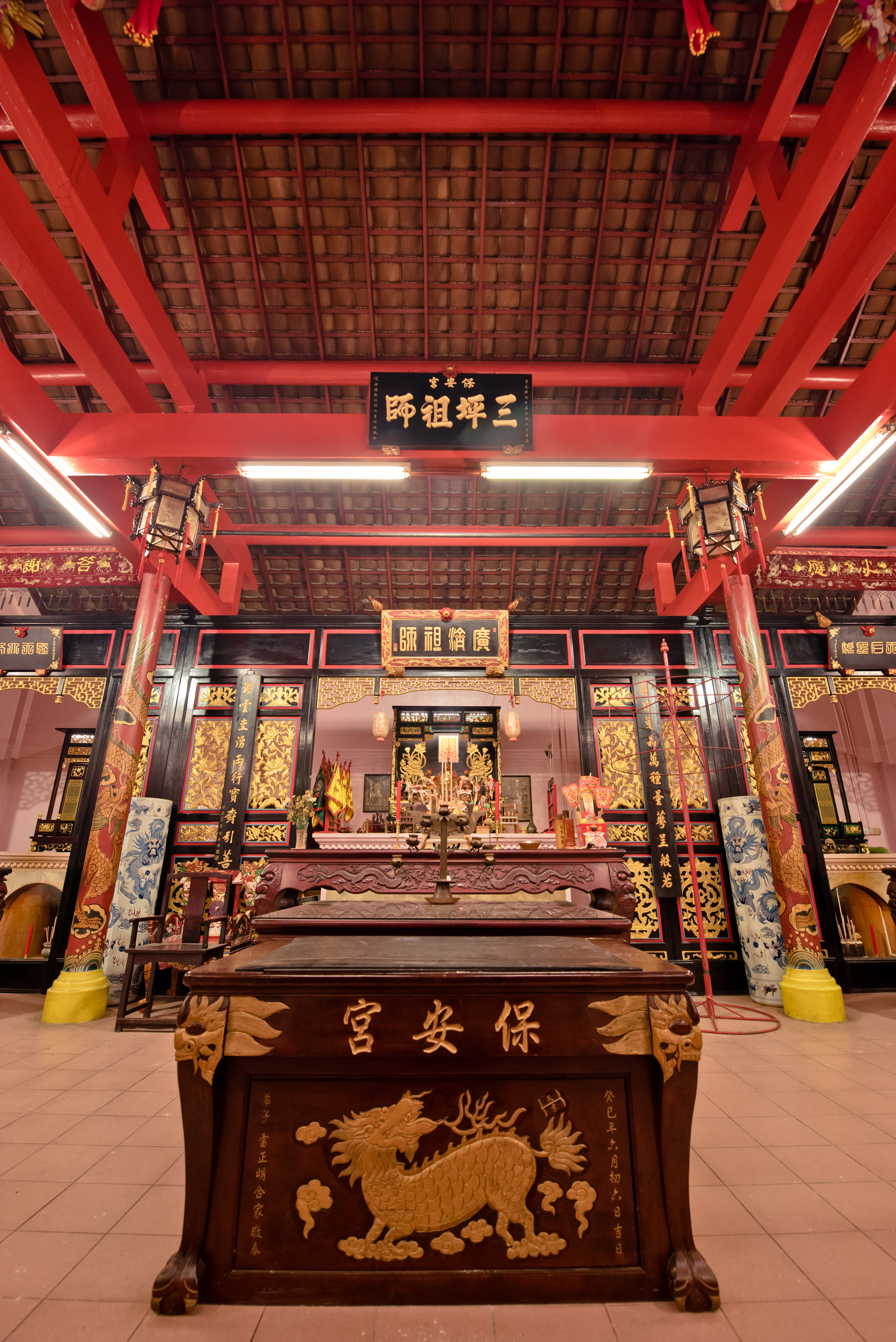 poh onn kong temple inside view